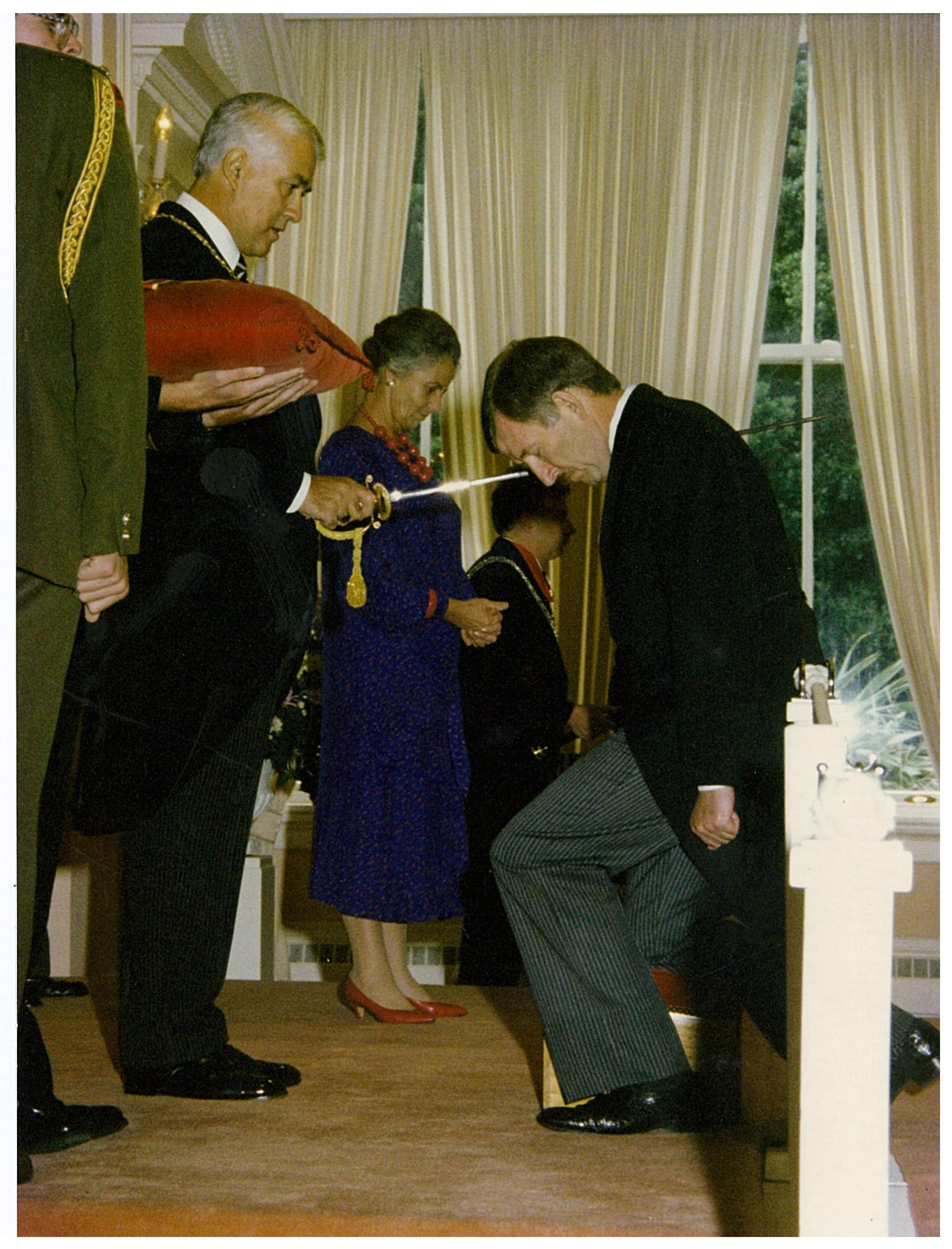 Sir Paul Reeves knights Sir Ron Brierley at an investiture ceremony at Government House Wellington in May 1988